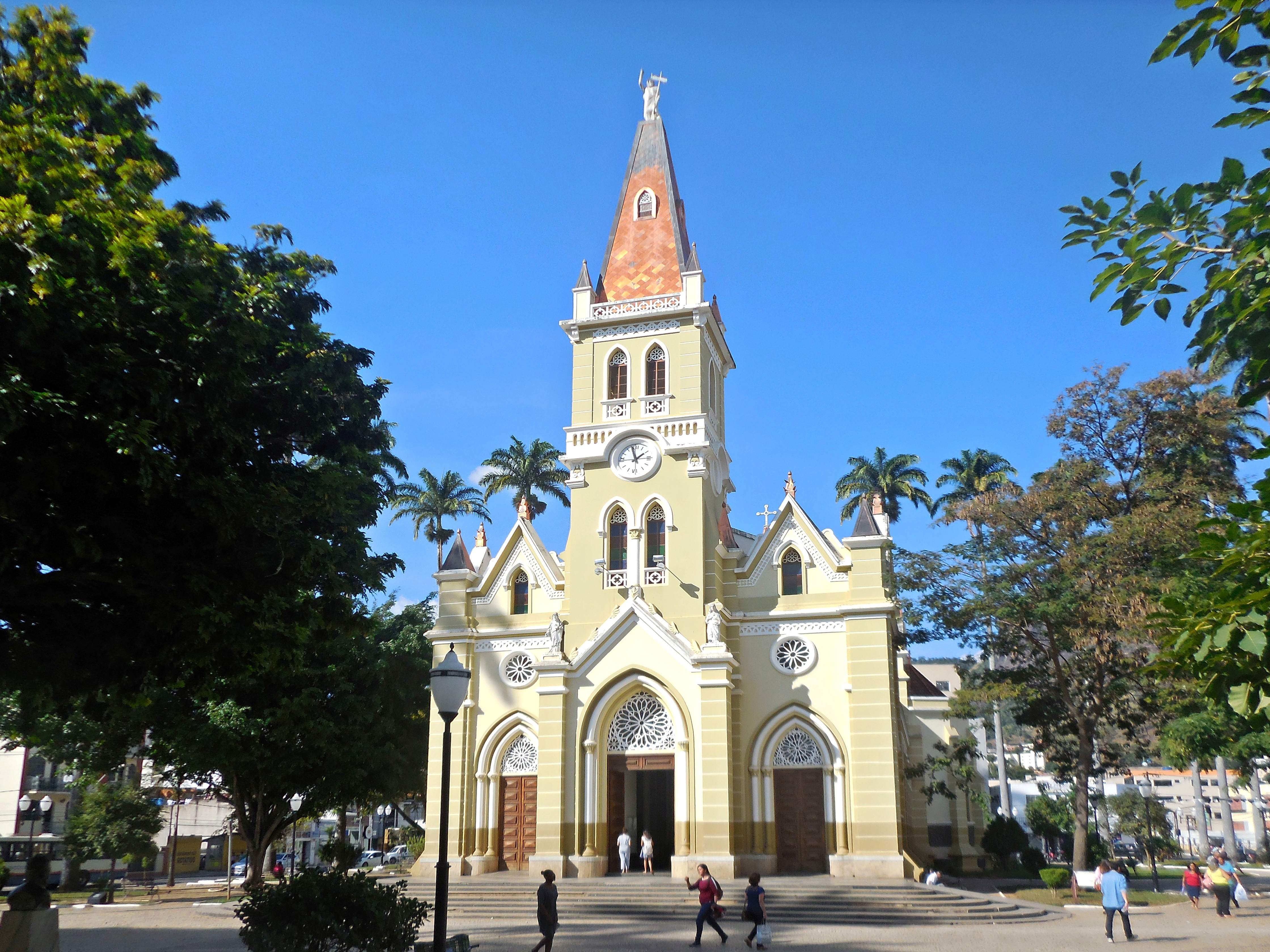 Facade of the Saint John the Baptist Cathedral, in Caratinga, Minas Gerais, Brazil.